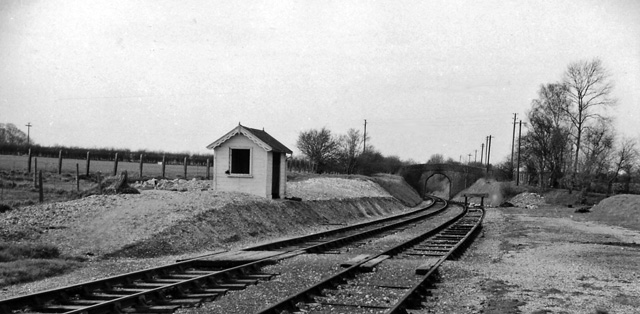 Boxford Station (remains). View NW, towards Lambourn; ex-GWR Newbury - Lambourn branch. Station closed to passengers 4/1/60, when also line closed completely Welford Park - Lambourn but station and Newbury - Welford Park remained open to serve the American USAF Base, being leased and operated by the MoD until 7/8/72.